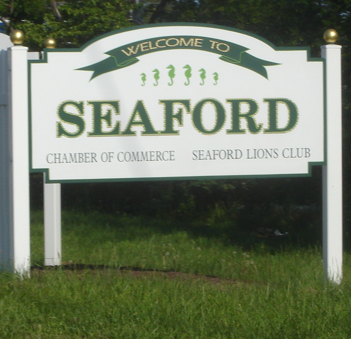 Welcome to Seaford sign on Sunrise Highway in Seaford, New York, United States.